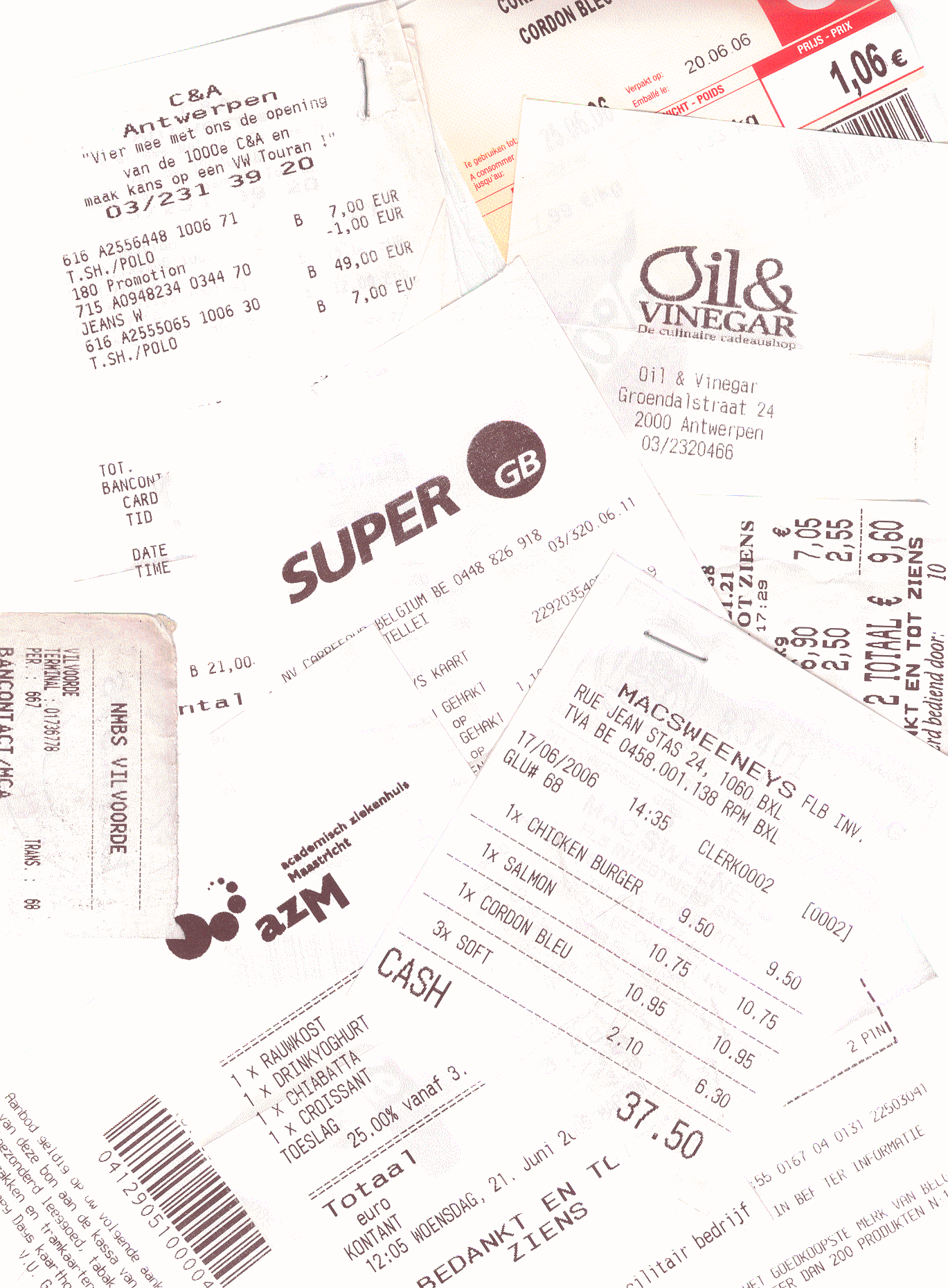 thermic paper